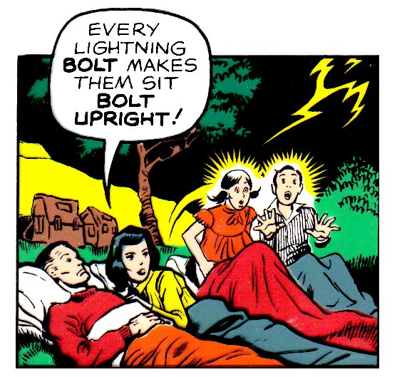 Line art drawing. Comic.